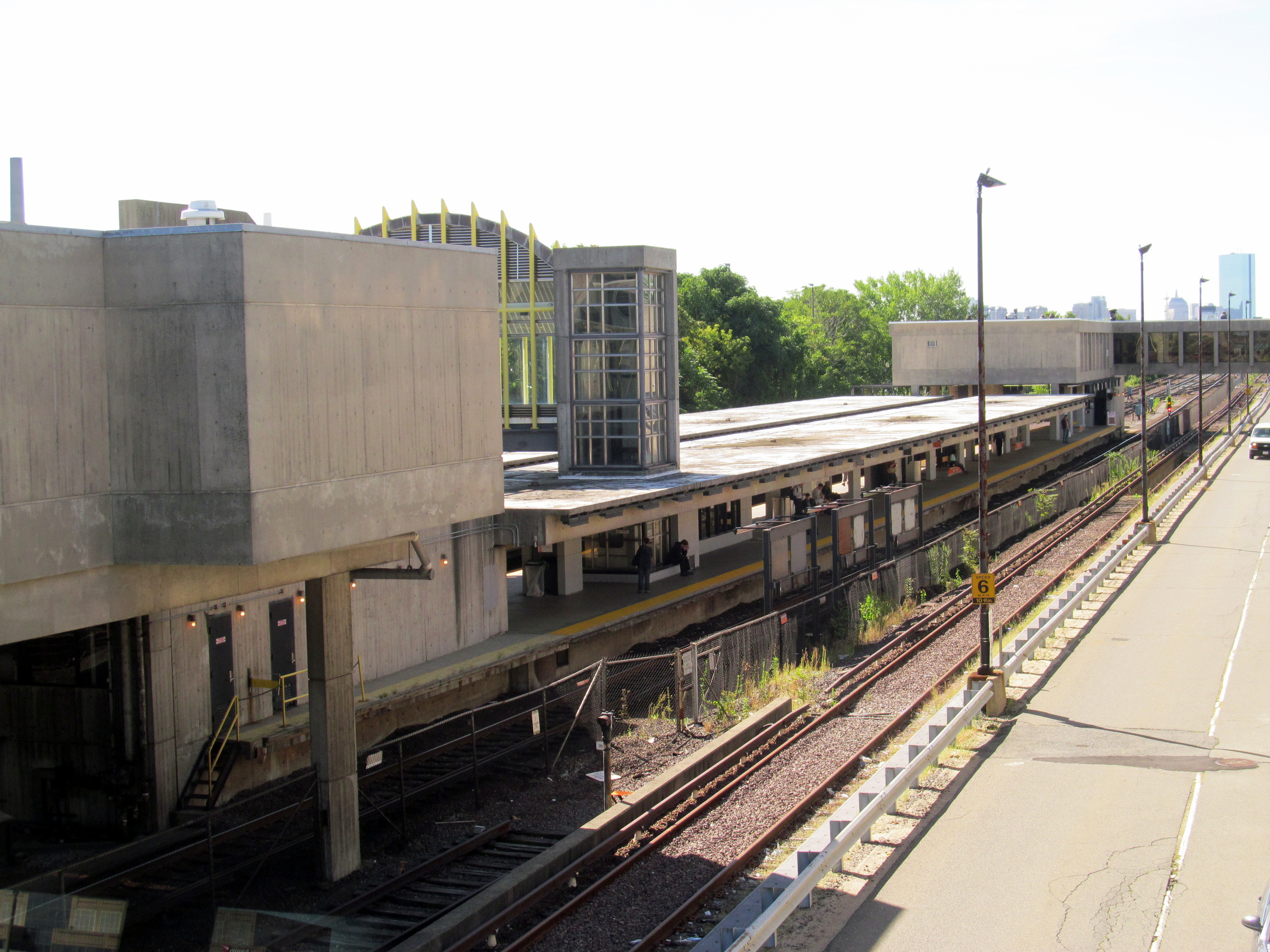 Wellington station as seen from the pedestrian bridge leading to the Station Landing development. The track in the foreground is a yard lead not used for revenue service